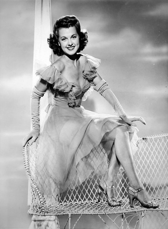 GOLDWYN GIRL OF 1943 Ellen Hall is the name of this shapely “native” of California She is one of the 34 Gorgeous girls appearing in “up in arms” producer Goldwyn’s latest technicolor comedy with music starring Danny Kaye, noted Broadway comedian, with Dinah shore, Dana Andrews and Constance Dowling in the impressive CassDirective Cass impressive cast directed by Elliott Nugent. The daughter of a pioneer film director Miss Hall was born in Los Angeles. She is 5’6” tall, weighs 123 pounds, has brown hair and blue eyes.